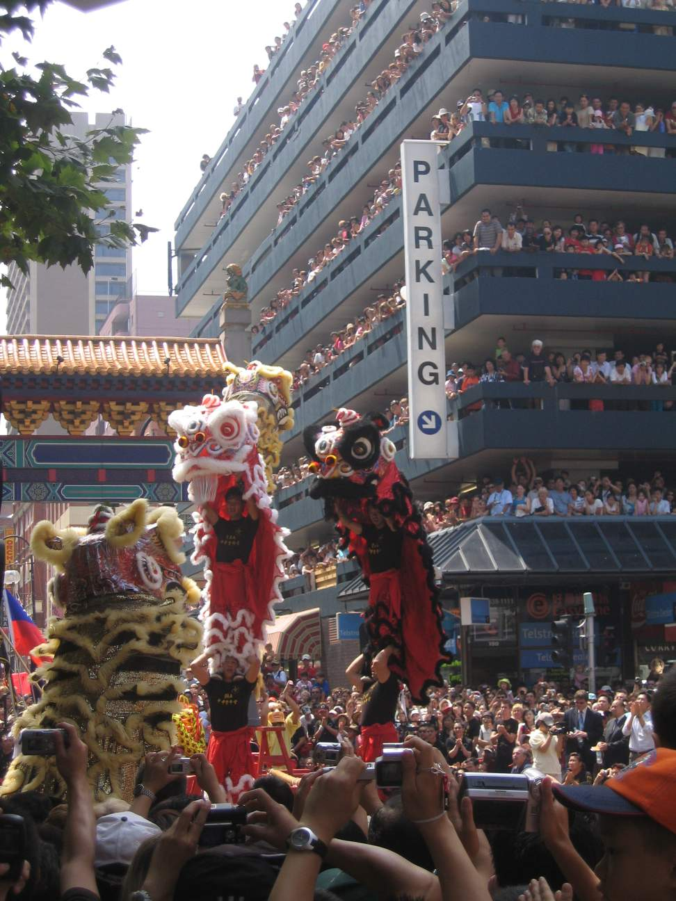 Chinese New Year celebrations in Melbourne, Australia